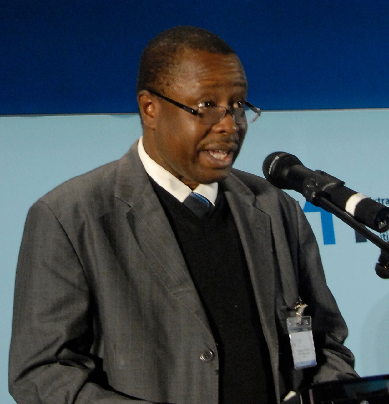 HE Dammipi Noupokou, Minister of Mines and Energy of Togo, during the 5th EITI Global Conference in Paris, France.